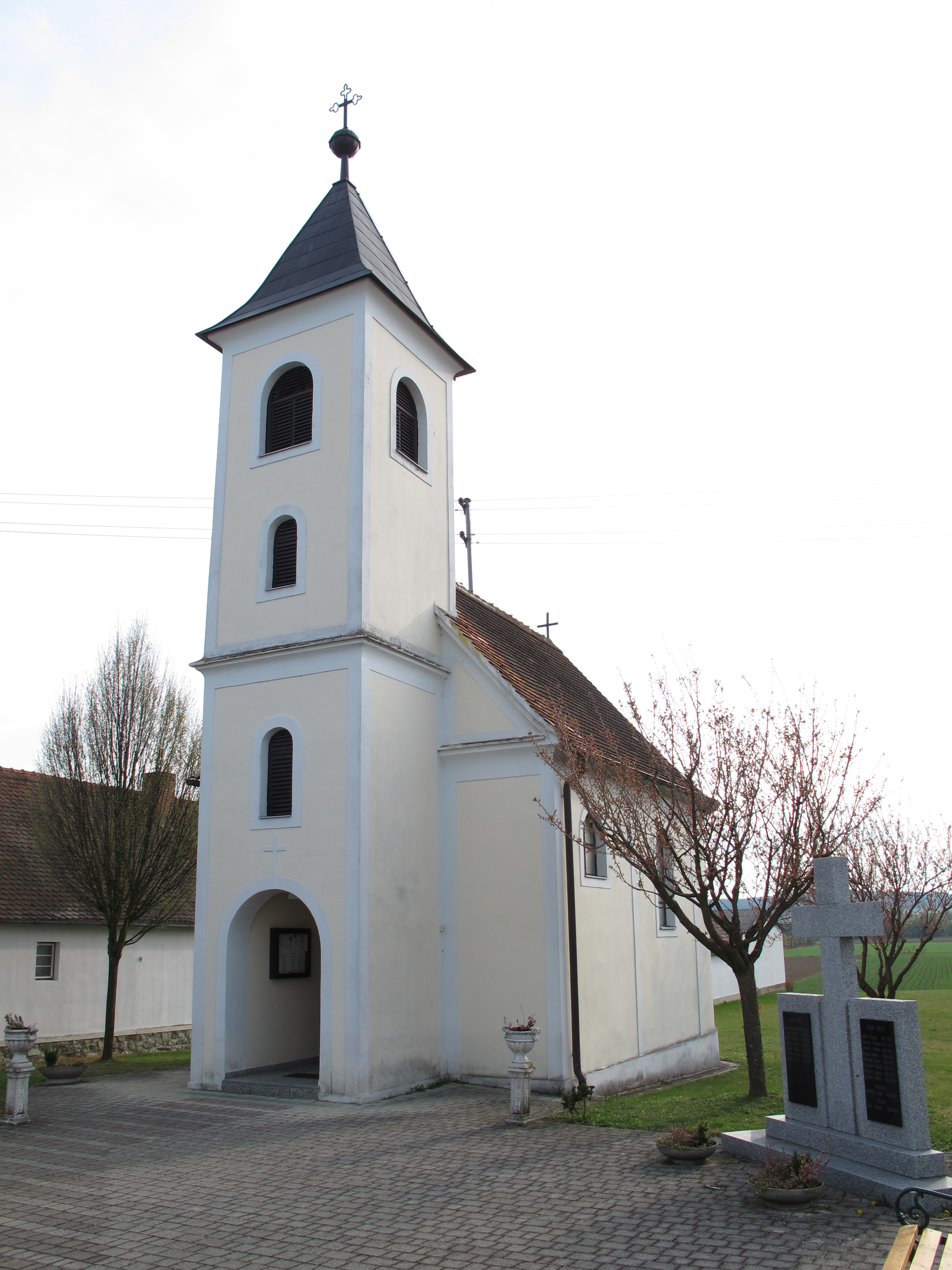 Kirche Kleinzicken